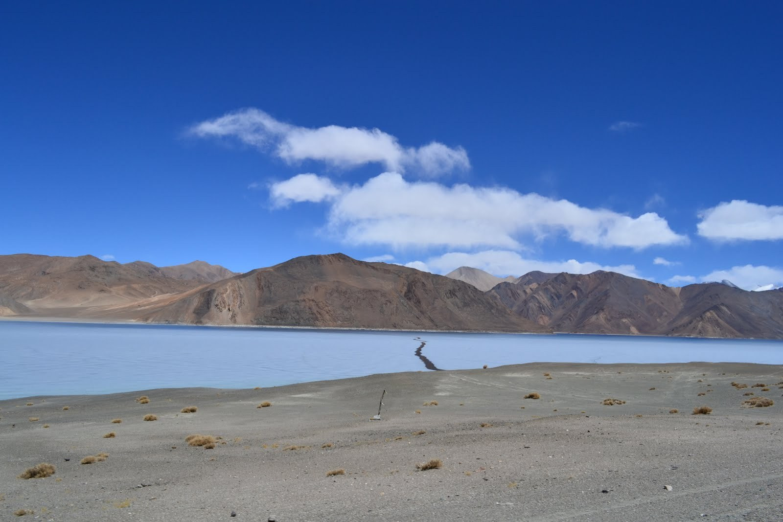 500px provided description: Pangon tso lake in Leh, India [#landscape ,#lake ,#people ,#nature ,#travel ,#animal ,#face ,#peace ,#ladakh ,#rural ,#leh ,#huge ,#nubra ,#India ,#Ravi ,#Kumar ,#VTR]